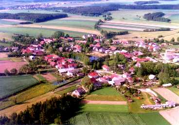 Poděšín aerial view